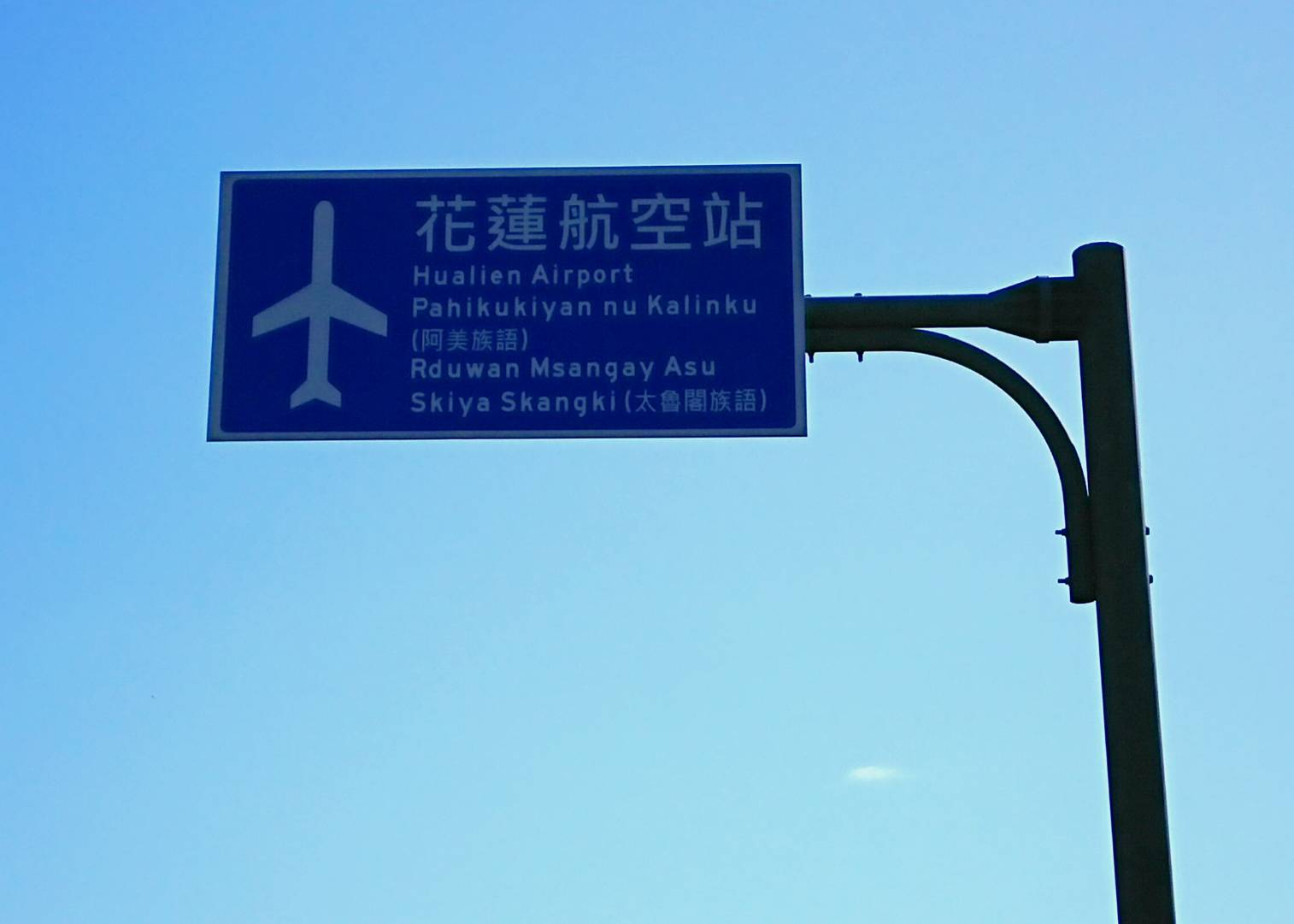 Multilingual sign in Hualien Airport, Taiwan(花蓮航空站,Hualien Airport,Pahikukiyan nu Kalinku,Rduwan Msangay Asu Skiya Skangki)